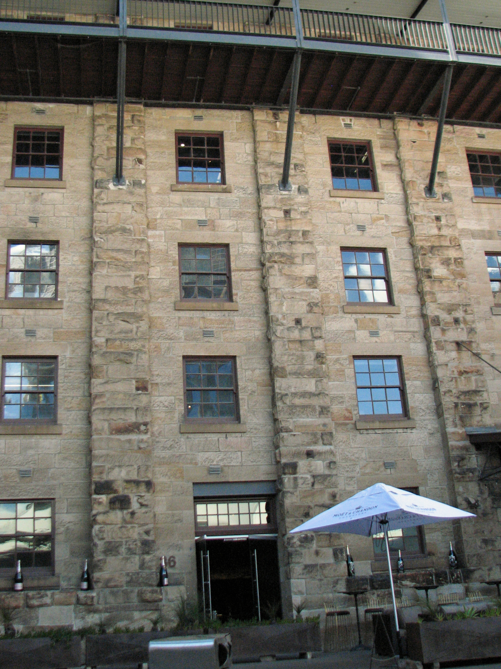 MSB Stores Complex, 2-4 Jenkins Street, Millers Point, New South Wales. View from Hickson Road forecourt